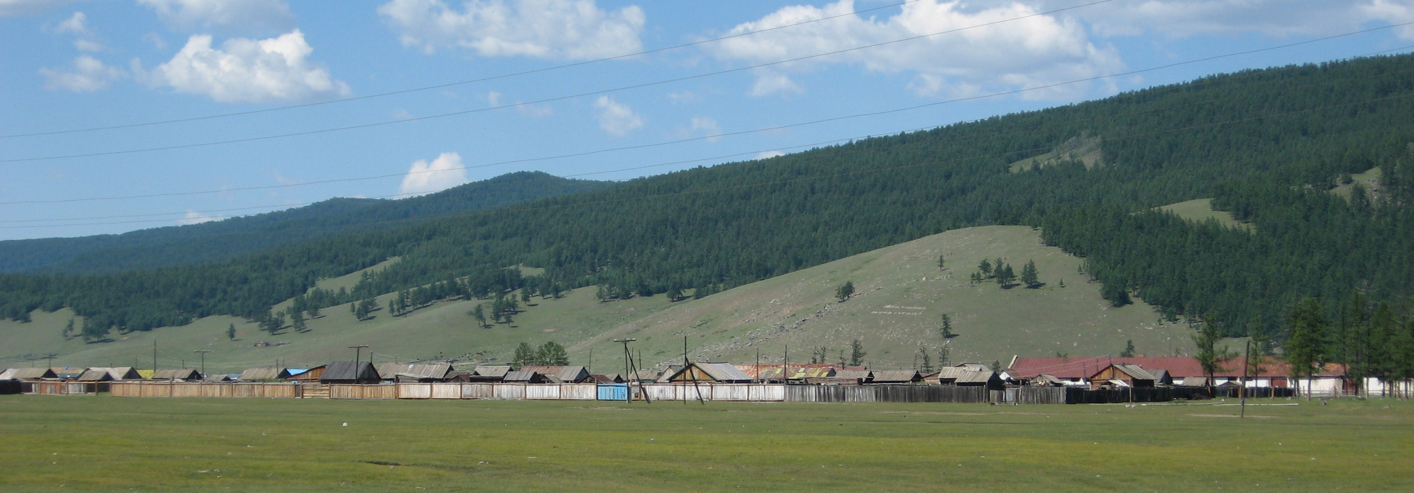 northern part of Uulan-Uul sum center, Khövsgöl aimag, Mongolia